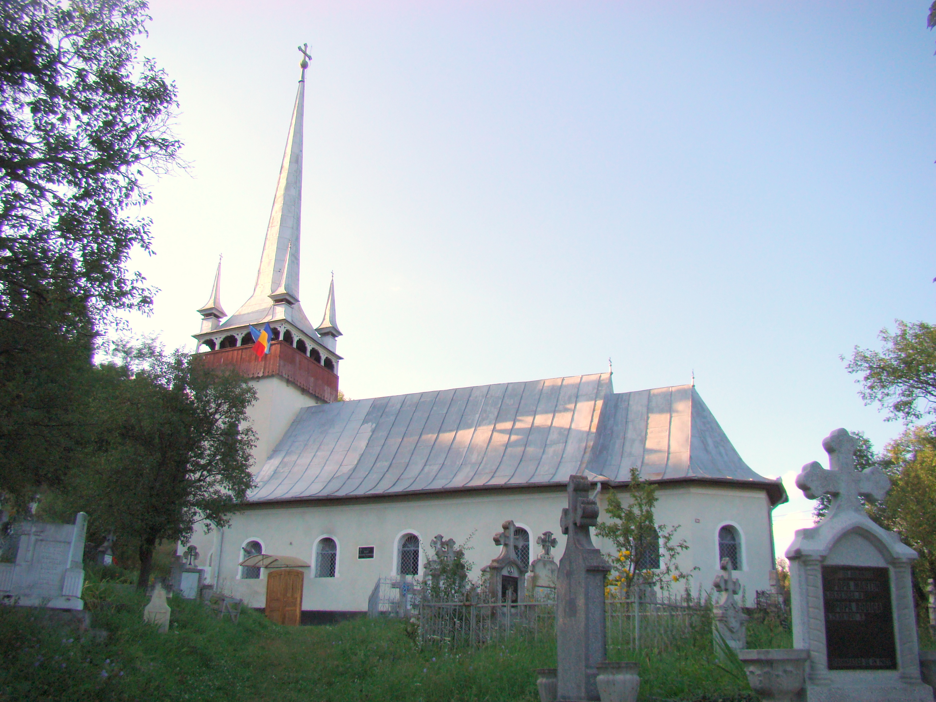 The church of the Descent of the Holy Spirit in Micești, Cluj county, Romania